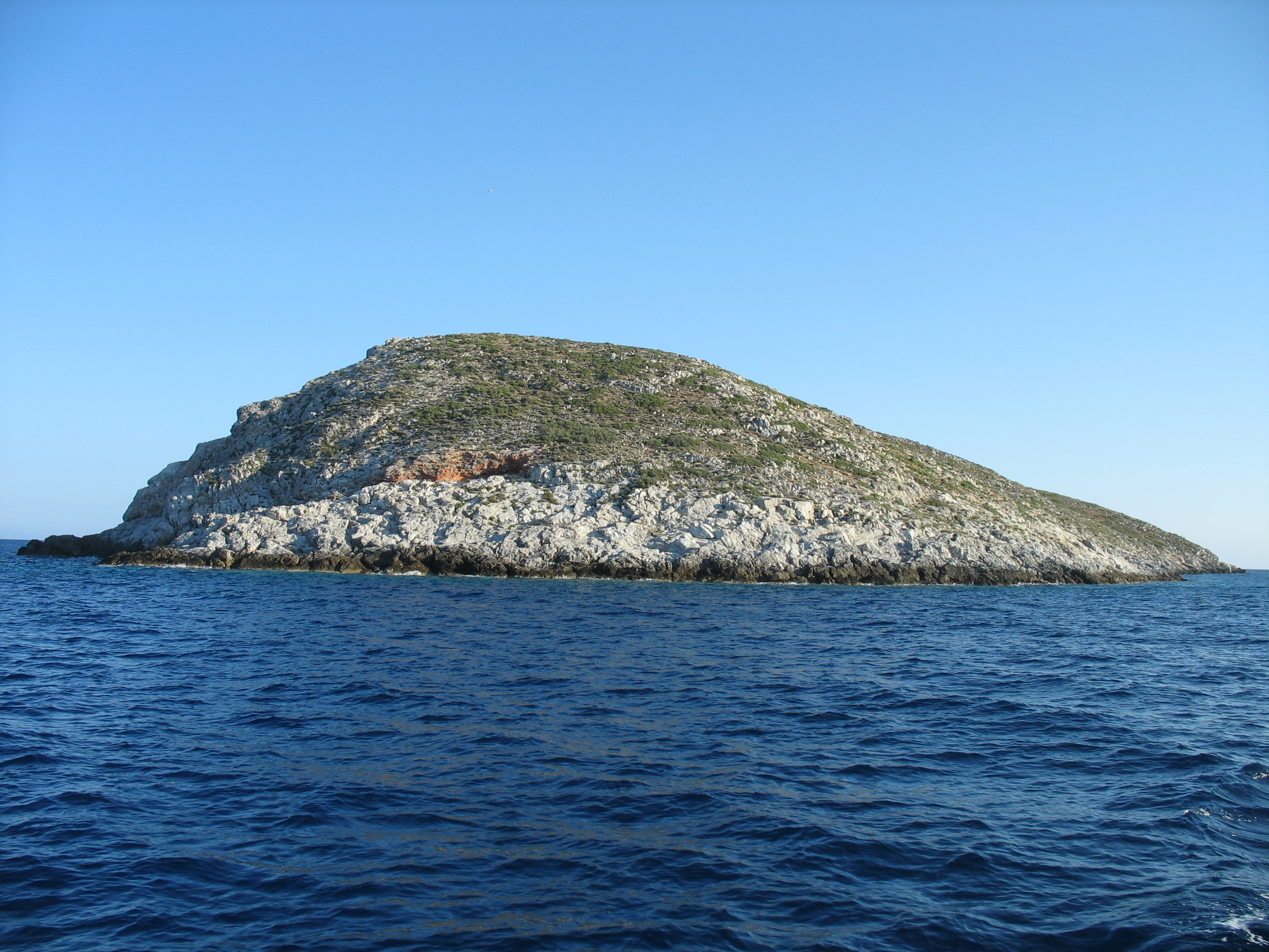 Island of Argilos (Agrilou) in the Small Cyclades